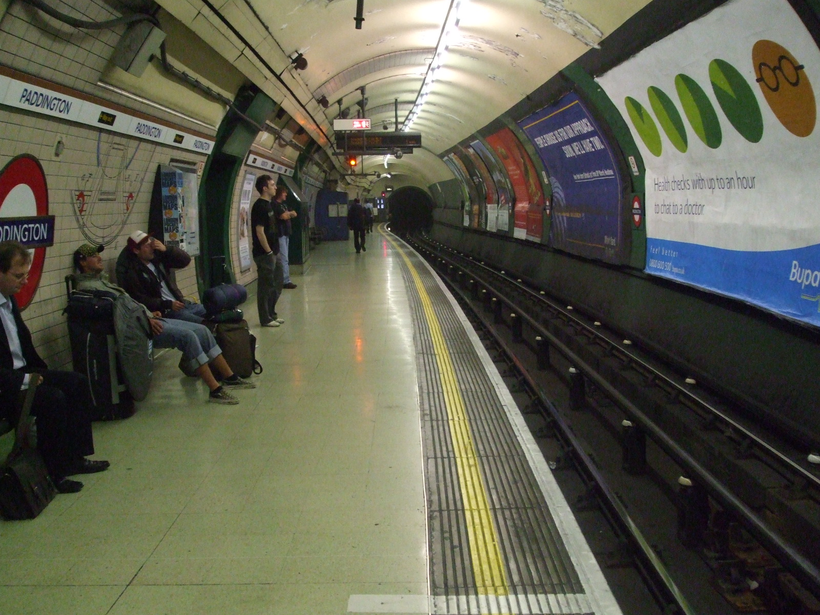 Paddington tube station Bakerloo line southbound platform looking north